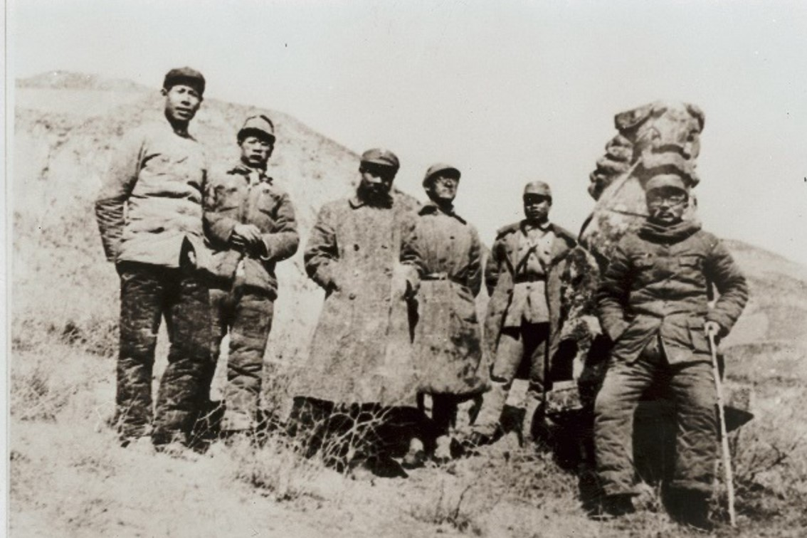 Lin Boqu in Yan'an Academy of Natural Sciences